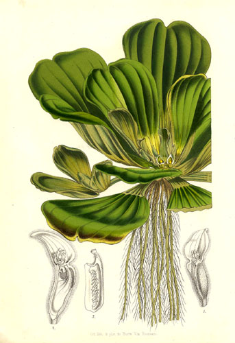 Pistia stratoites, botanical From: Flore des serres et des jardins de lâ€™Europe by Charles Lemaire and others. Gent, Louis van Houtte, 1851, volume 6 (plate 625). Chromolithograph finished by hand (sheet 160 x 240 mm).